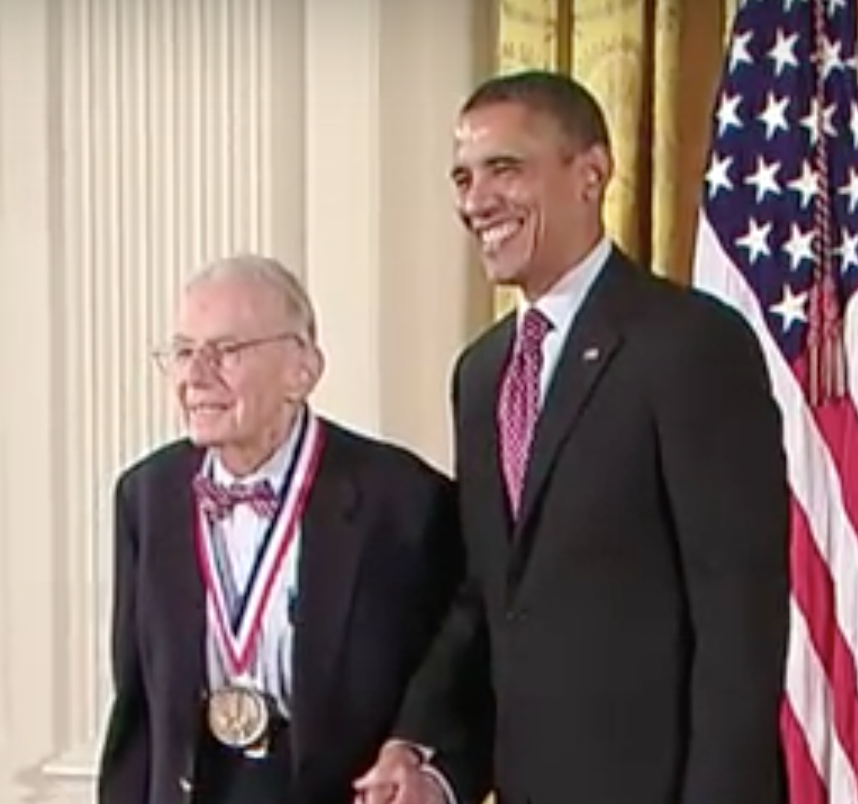 Art Rosenfeld receiving his 2011 Medal for Technology and Innovation from United States President Barack Obama.